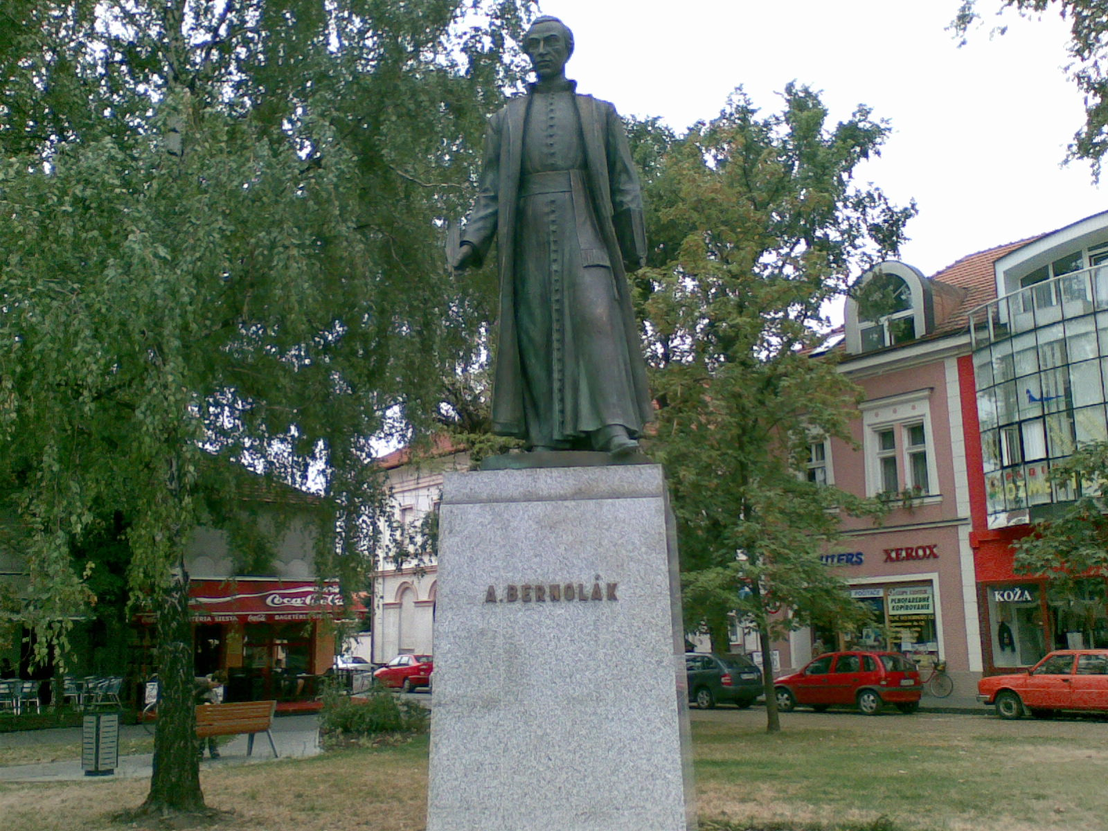 Statue of Anton Bernolák Slovak writer at Nové Zámky,Slovakia